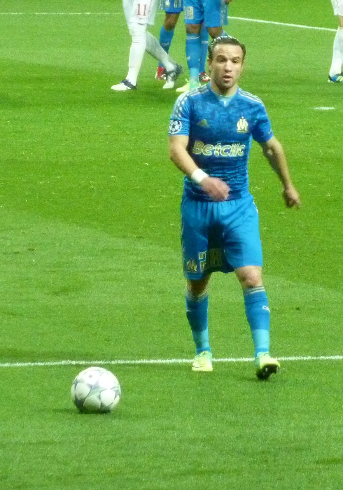 Mathieu Valbuena during a match between Arsenal and Marseille in Champions League 2011/12 group stage